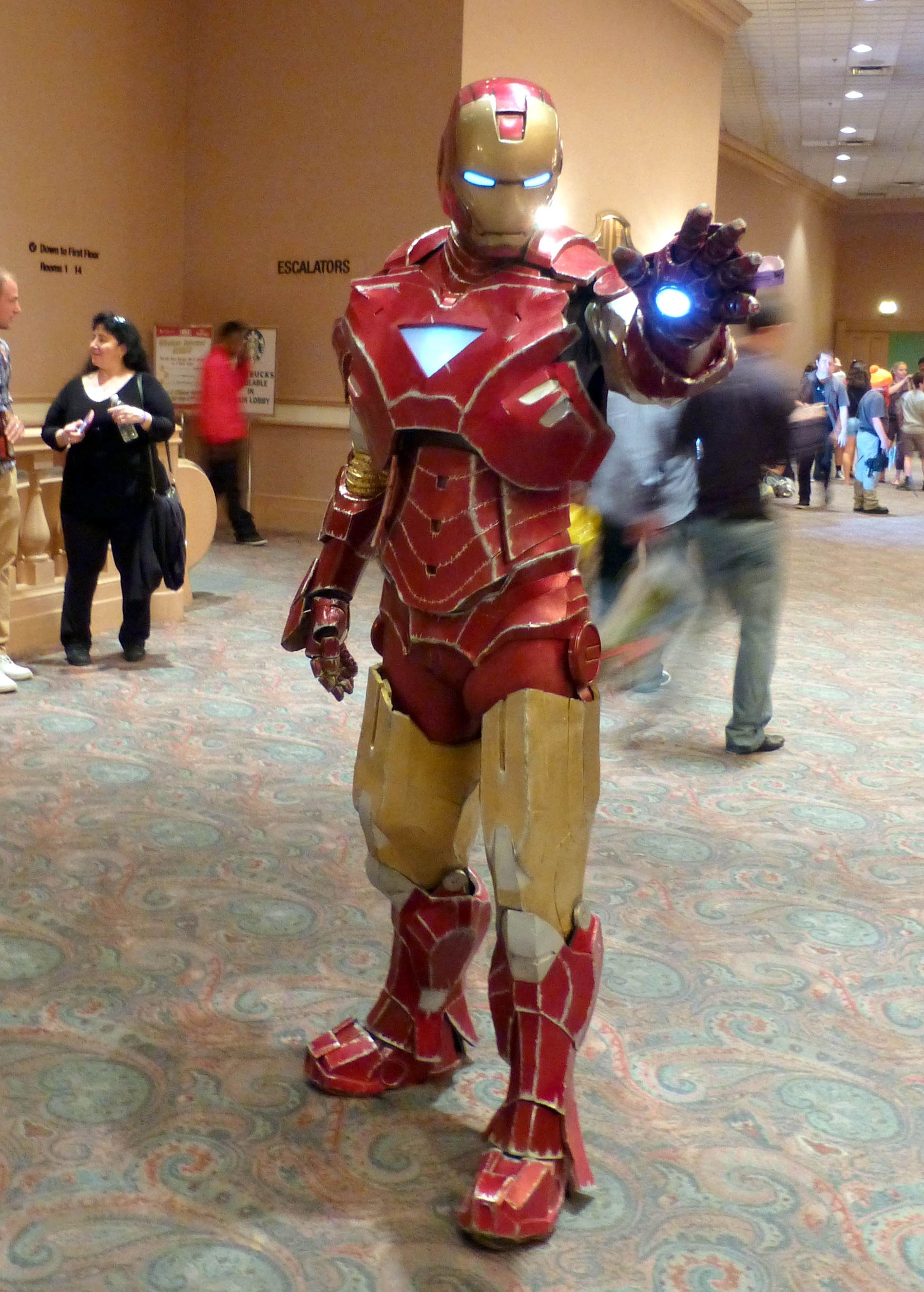 Iron Man Cosplay at the 2013 Wizard World Chicago.